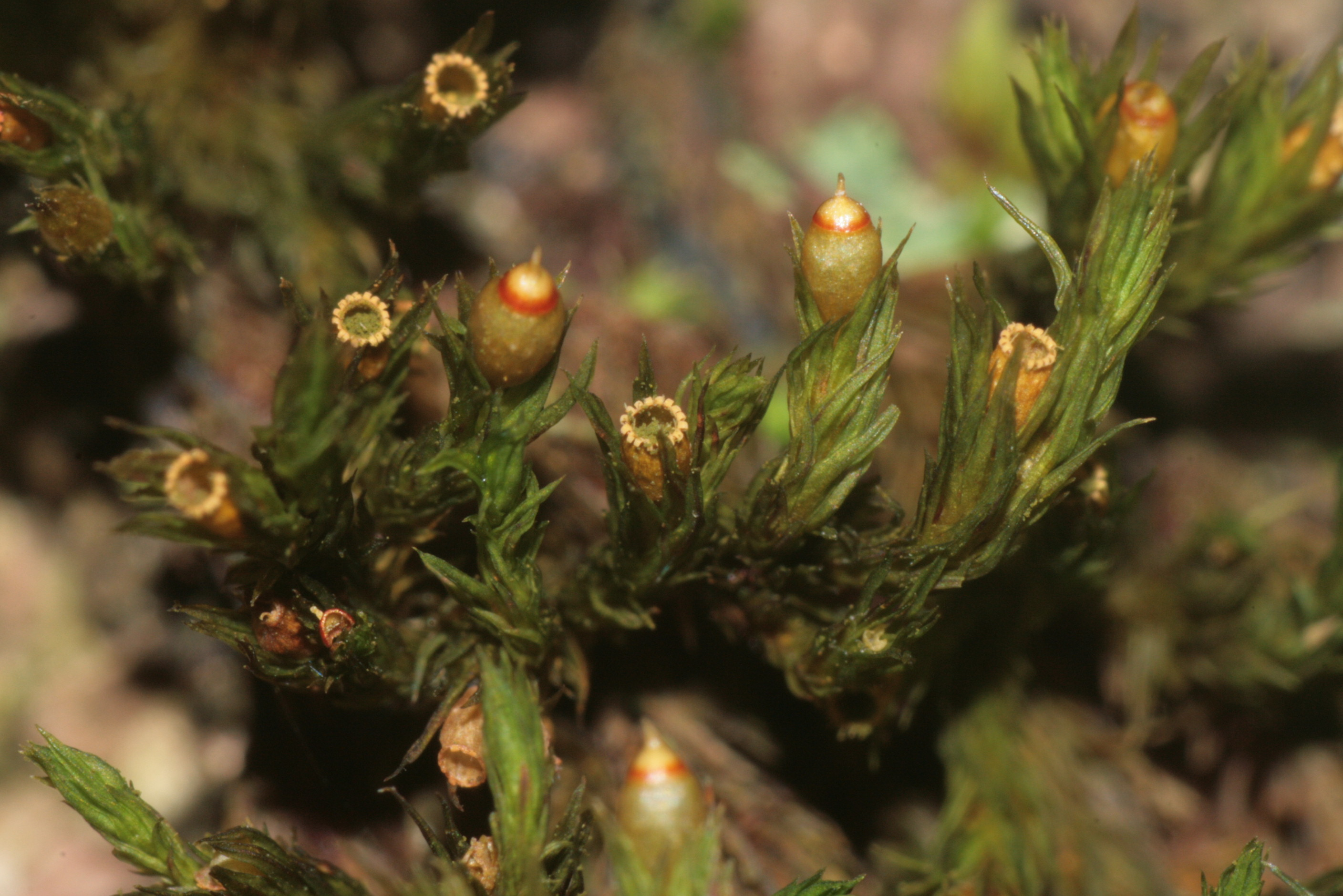 Orthotrichum striatum